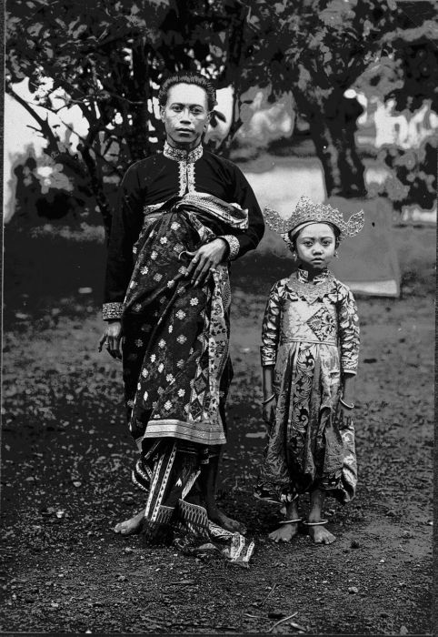 I Gusti Bagus Djilantik with his son Anak Agung Gede Djelantik